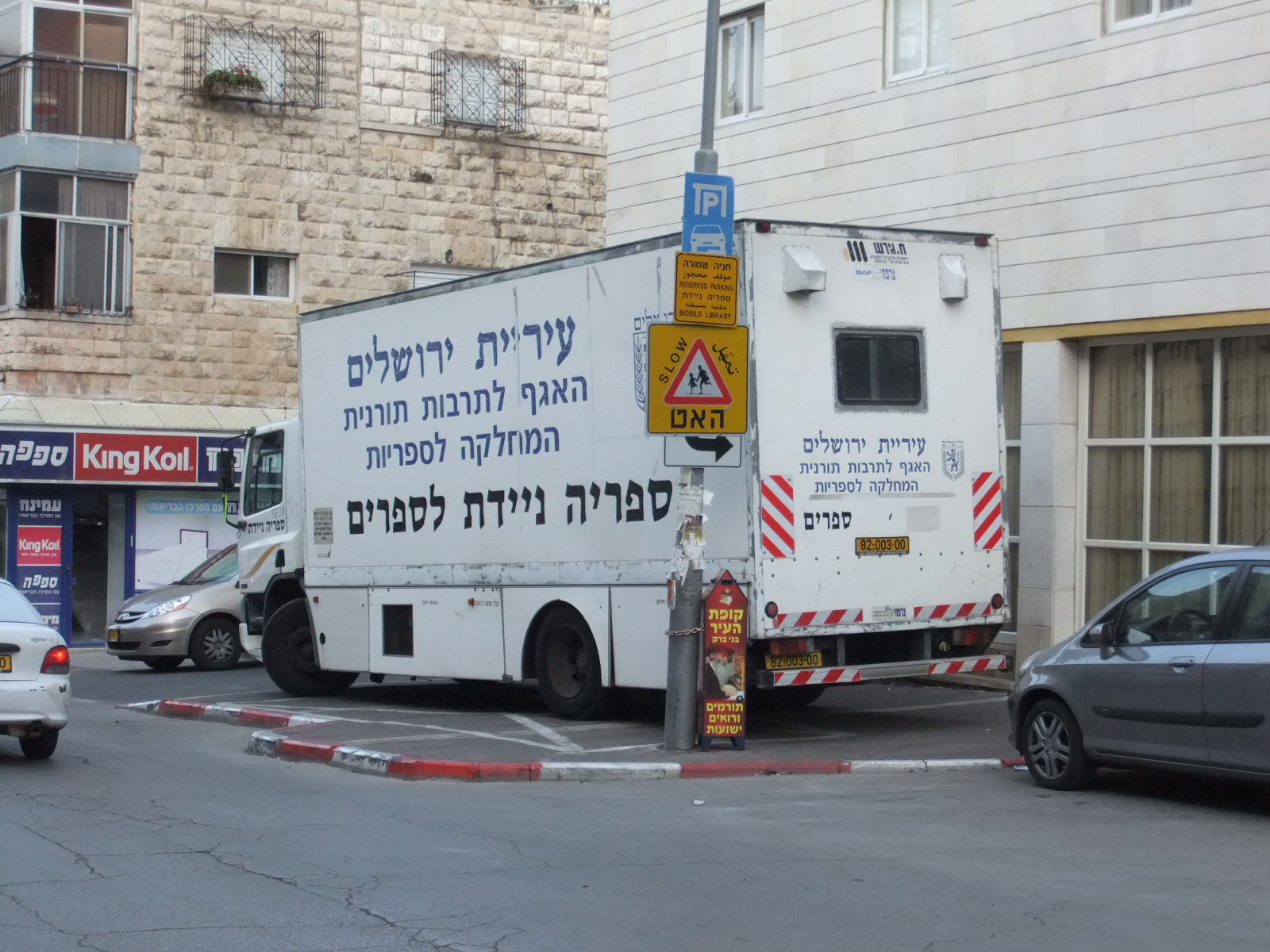 Mobile library in Jerusalem, Yehiel Michel Pines st